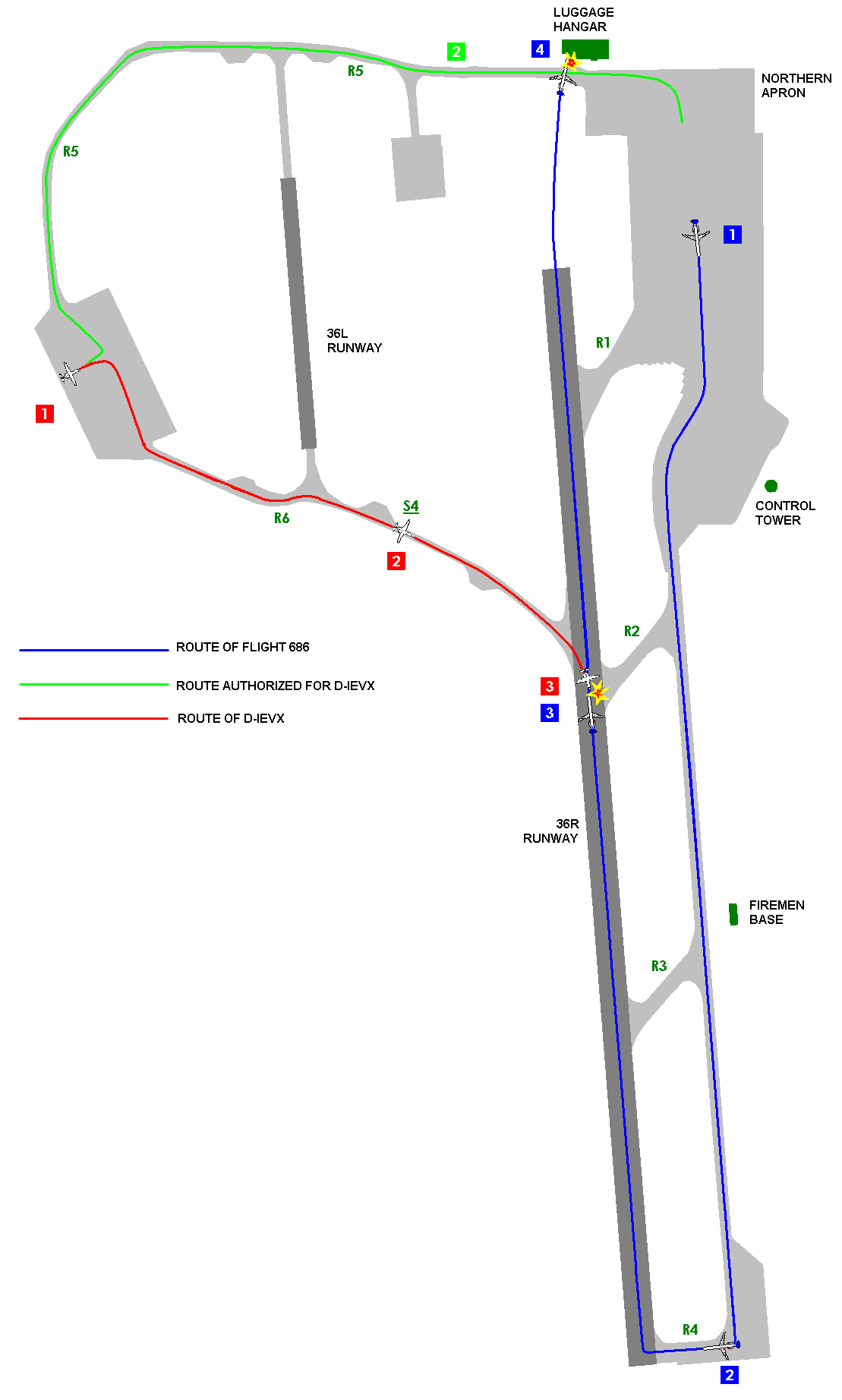 Map showing the routes of the aircraft involved at Linate Airport disaster at Linate Airport (LIN/LIML) in Milan, Italy on 2001-10-08.